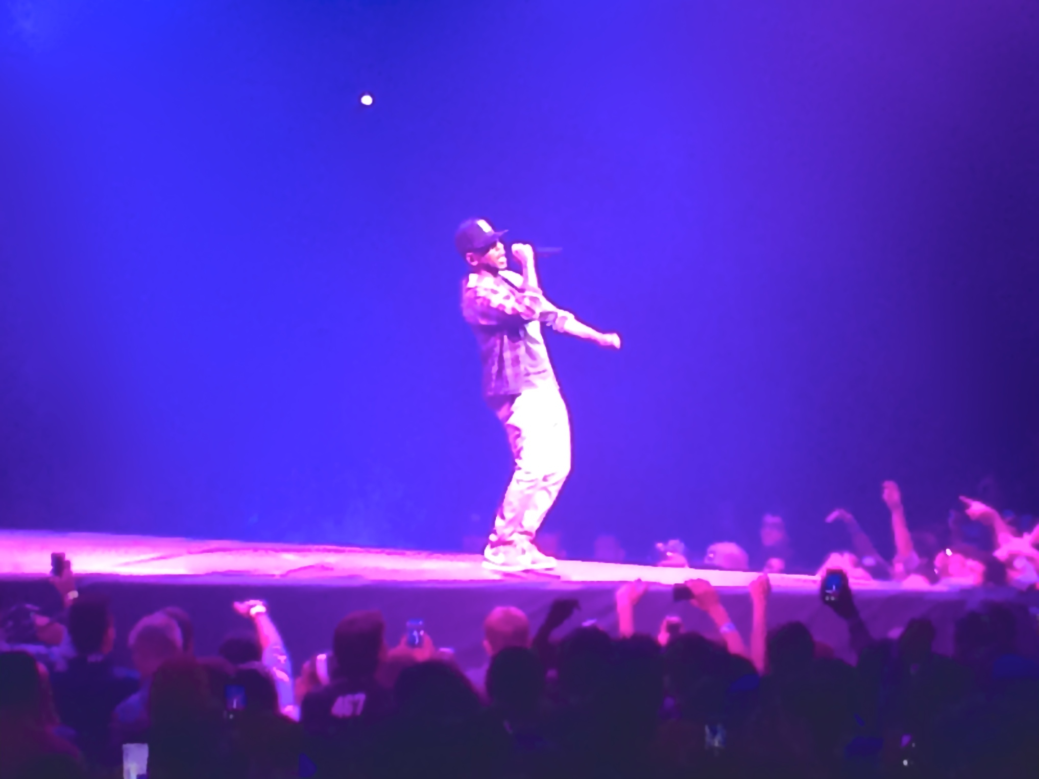 Kendrick Lamar performing at the Yeezus Tour.